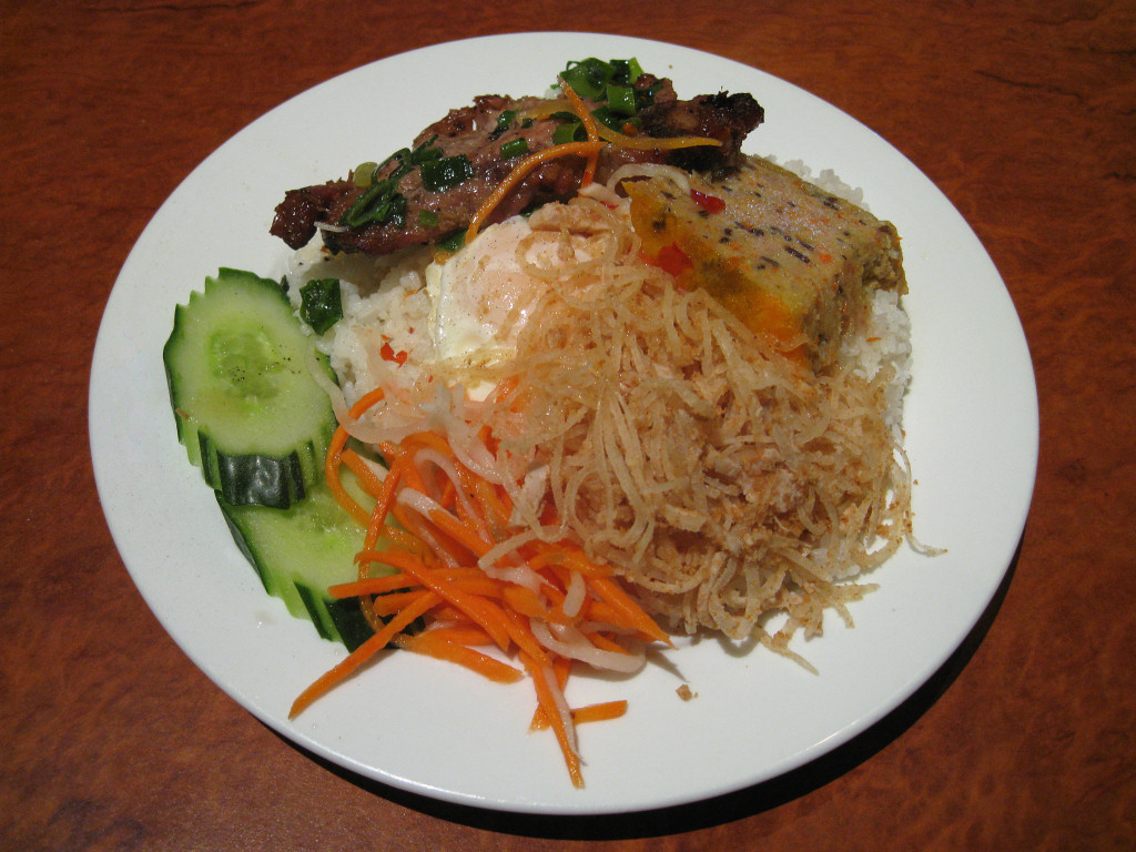 Vietnamese broken rice (cơm tấm) with grilled pork, shredded pork and pork skin, fried egg, pork meat loaf, picked carrot and sliced cucumber from Ha Long Bay restaurant in Richmond, Victoria, Australia.